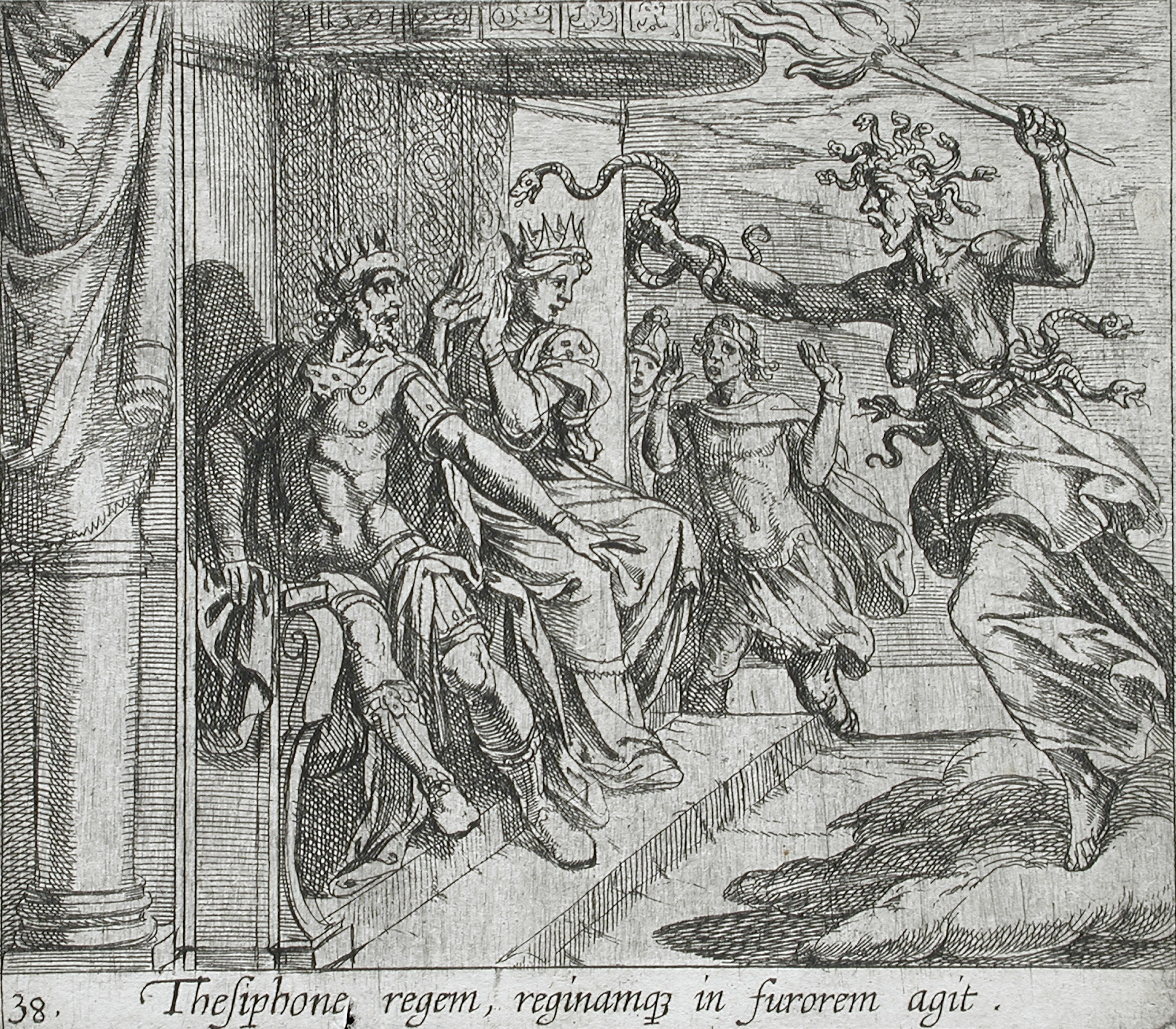 Italy, published 1606 Alternate Title: Thesiphone regem, reginamque in furorem agit Series: The Metamorphoses of Ovid, pl. 38 Edition: Second edition Prints; etchings Etching Los Angeles County Fund (65.37.122) Prints and Drawings